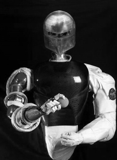 Robonaut portrait